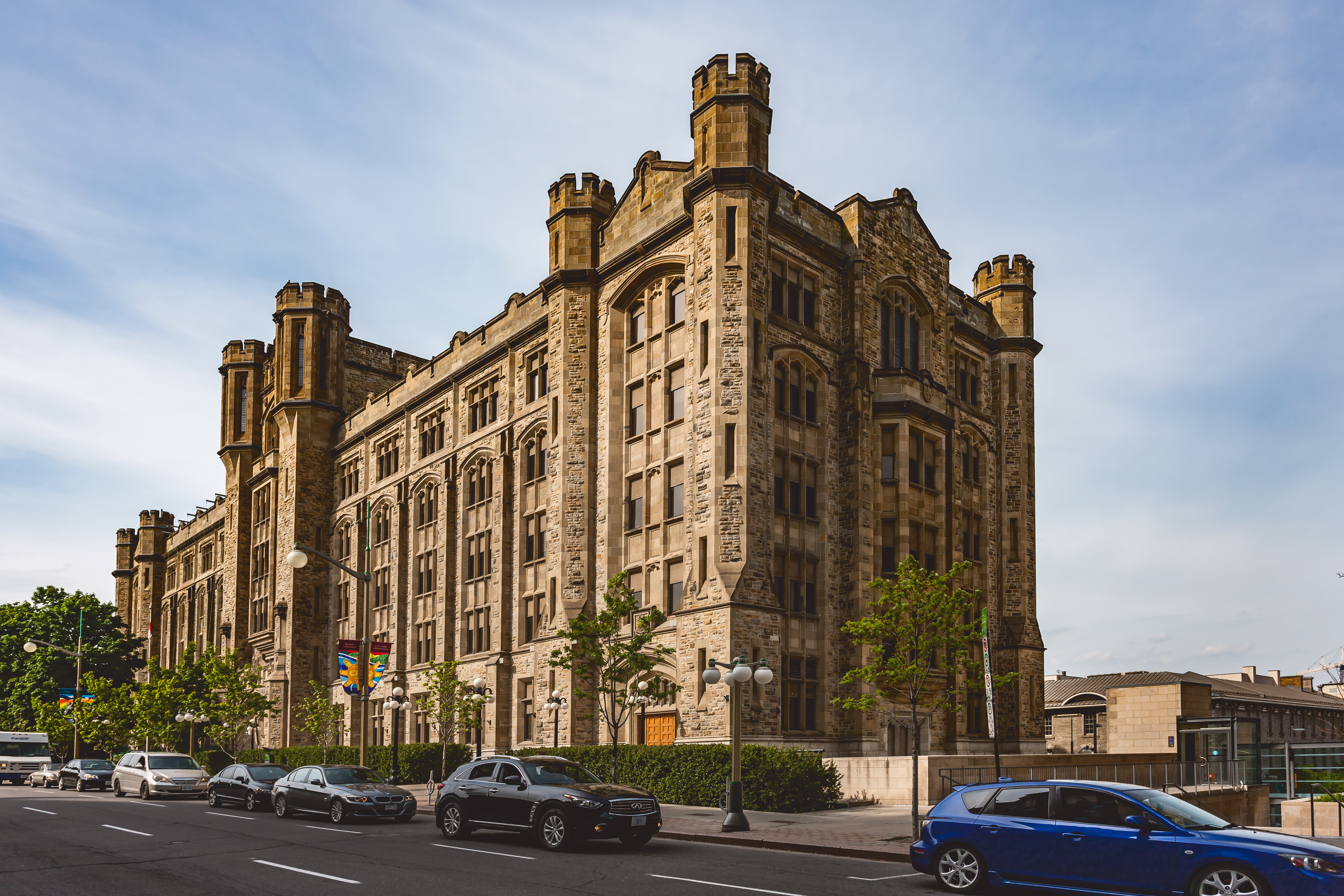 The Connaught Building is a historic office building in Ottawa, Canada, owned by Public Works and Government Services Canada. It is located at 555 MacKenzie Avenue just south of the American Embassy. To the east the building looks out on the Byward Market and to the west is MacKenzie Avenue and Major's Hill Park. Today it houses the headquarters of the Canada Revenue Agency (CRA). The Minister and Commissioner of the CRA have offices in the building.